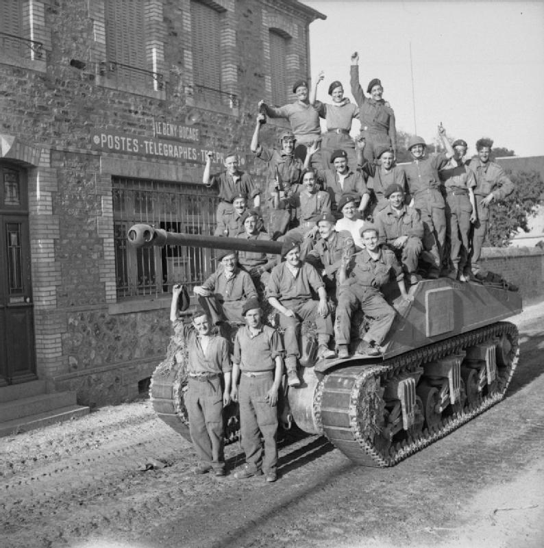 The British Army in Normandy 1944 Tank crews crowd onto a Sherman Firefly to celebrate the capture of Le Beny Bocage, 1 August 1944.